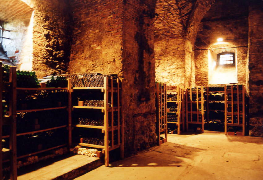 wine-cellar of Schloss Seggau (Seggau Castle) in Seggauberg.